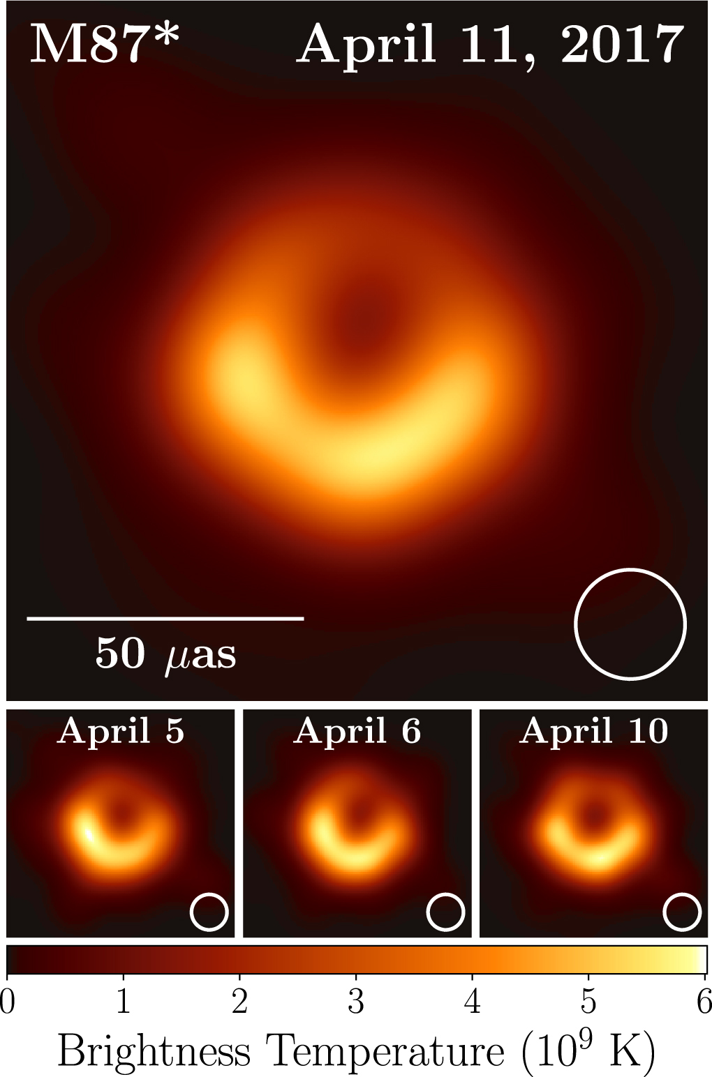 First image of a black hole. Top: EHT image of M87* from observations on 2019 April 11 as a representative example of the images collected in the 2019 campaign. The image is the average of three different imaging methods after convolving each with a circular Gaussian kernel to give matched resolutions. The largest of the three kernels (20 μas FWHM) is shown in the lower right. The image is shown in units of brightness temperature, T b = S λ 2 / 2 k B Ω {\displaystyle {T}_{\rm {b =S{\lambda }^{2}/2{k}_{\rm {B {\rm {\Omega } , where S is the flux density, λ is the observing wavelength, kB is the Boltzmann constant, and Ω is the solid angle of the resolution element. Bottom: similar images taken over different days showing the stability of the basic image structure and the equivalence among different days. North is up and east is to the left.